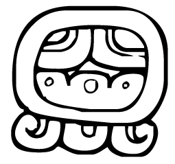 Maya:glyph:logogram:calendric:Tzolkin:Day03:Akbal:std+suffix:v01. Img created by CJLL Wright.